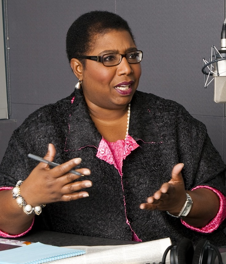 Callie Crossley, host of The Callie Crossley Show on WGBH Radio in Boston.